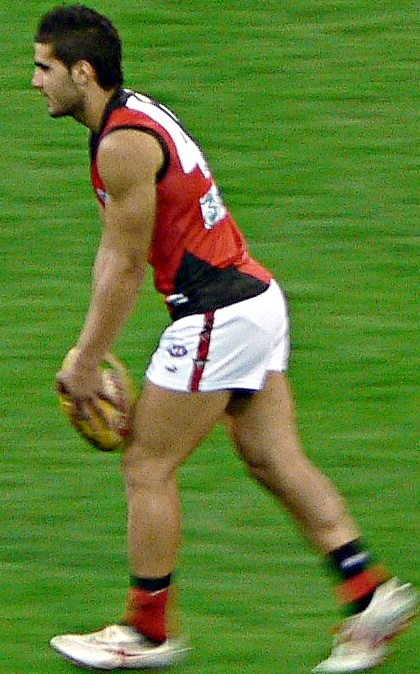 Bachar Houli, Australian rules footballer